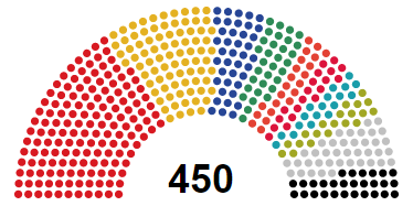 Verkvohna Rada composition Jan 2015